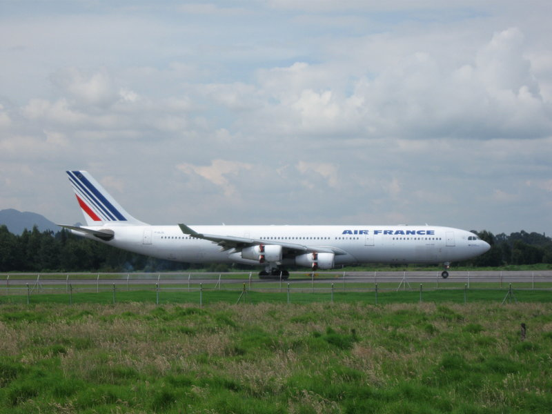 Air France Airbus A340-300 arrives at El Dorado International Airport, Bogota, Columbia from Paris, France.